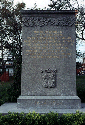 Walloon Monument at north end of Battery Park in New York City. Dedicated to Jesse de Forest for his contributions to the founding of New York City.